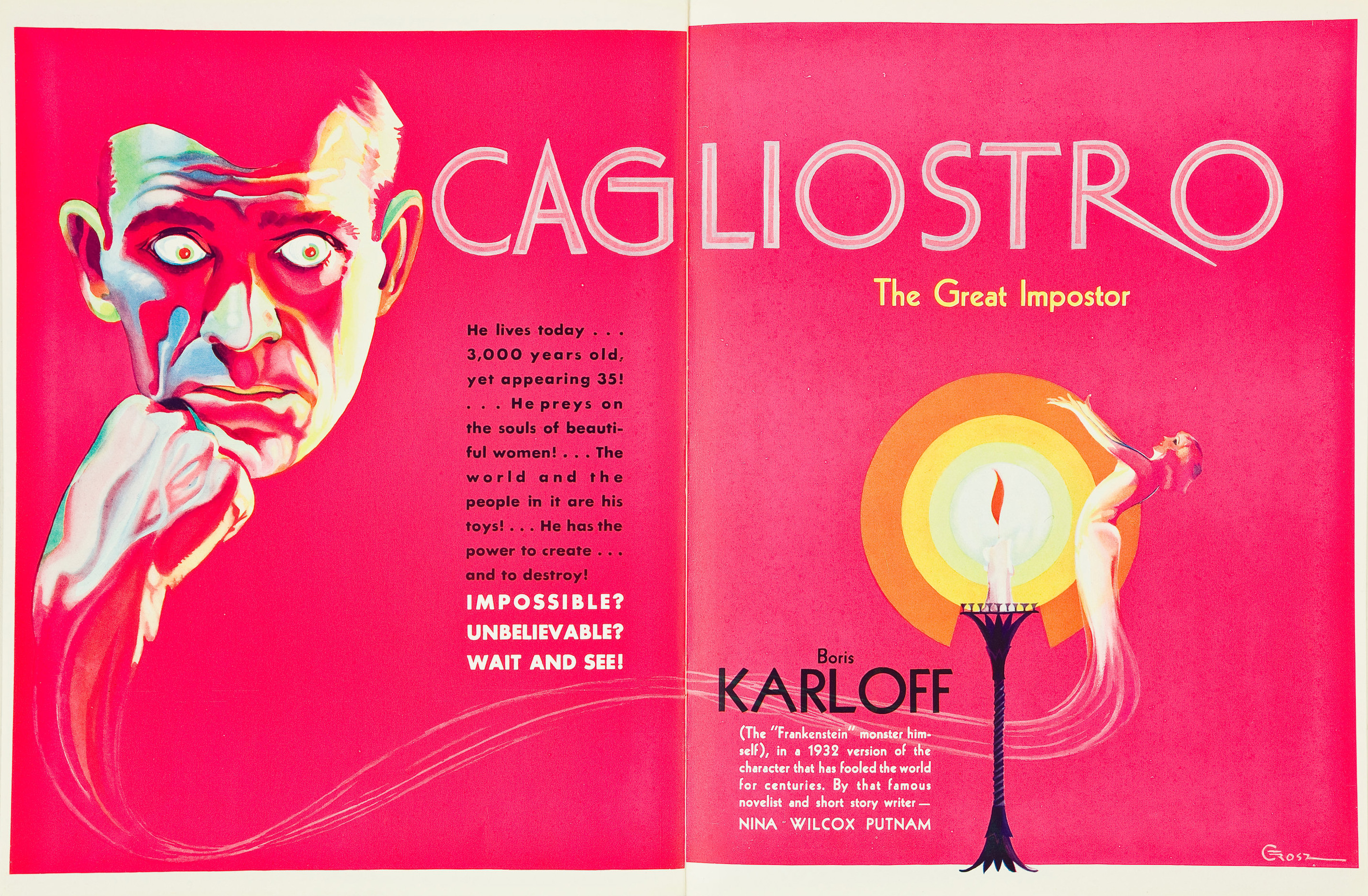 Two-page ad sheet for Cagliostro, a concept for a Universal Pictures film to star Boris Karloff as a villainous character inspired by the historical Italian occultist Alessandro Cagliostro. While the Cagliostro concept was abandoned, it served as the early basis for what became The Mummy (1932 film) (1932). The accompanying ad copy reads: "CagliostroThe Great ImpostorHe lives today . . .3,000 years old,yet appearing 35!. . . He preys onthe souls of beauti-ful women! . . . Theworld and thepeople in it are histoys! . . . He has thepower to create . . .and to destroy!Impossible?Unbelievable?Wait and see!Boris Karloff(The 'Frankenstein' monster him-self), in a 1932 version of thecharacter that has fooled the worldfor centuries. By that famousnovelist and short story writer —Nina Wilcox Putnam"